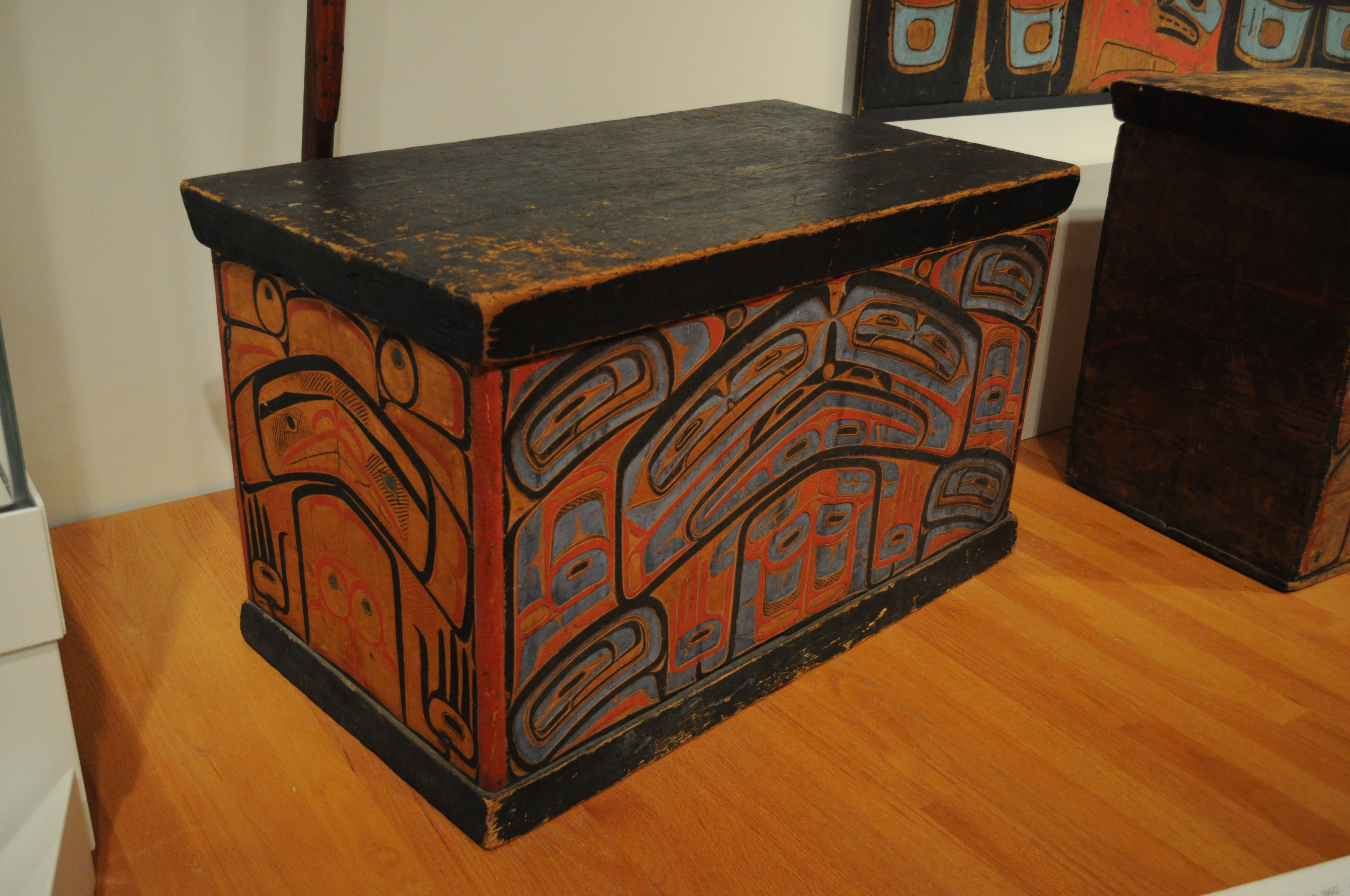 Bent-corner chest